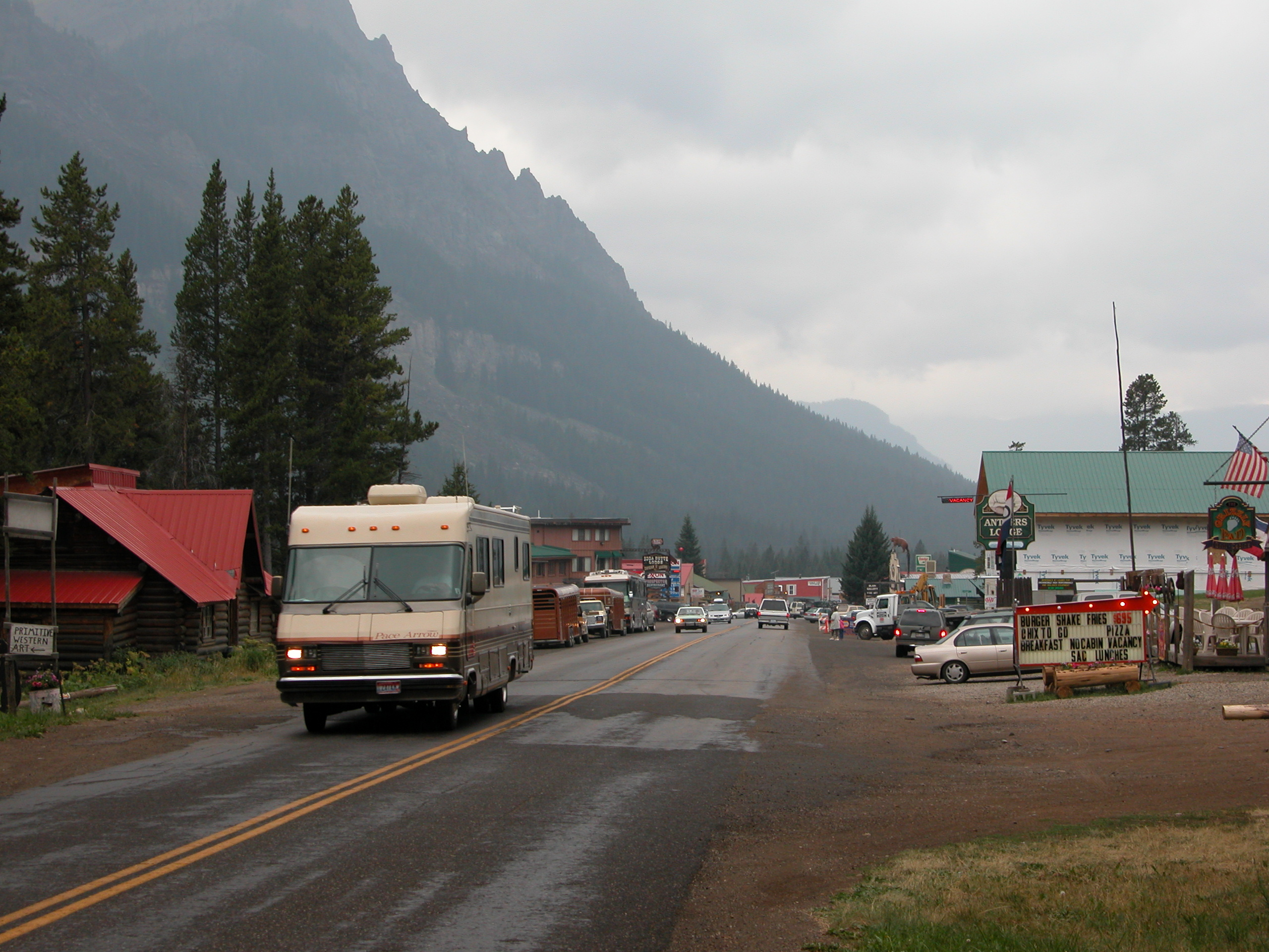 Entering Cooke City, Montana along U.S. Route 212 from the East.